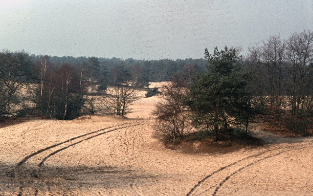 View to a part of "Loonse en drunense duinen". This is a picture I made myself 20 years ago. It`s a scan from a reversal film and can be used for free.